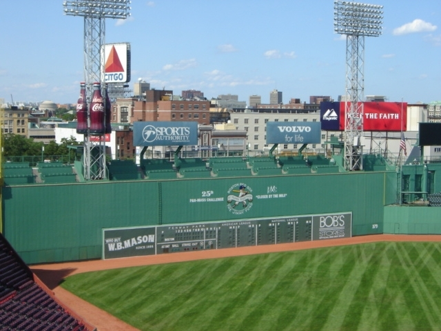 I took this picture in 2006 at Fenway Park. 19:16, 28 May 2007 . . KnightLago . . 640×480 (215 KB)